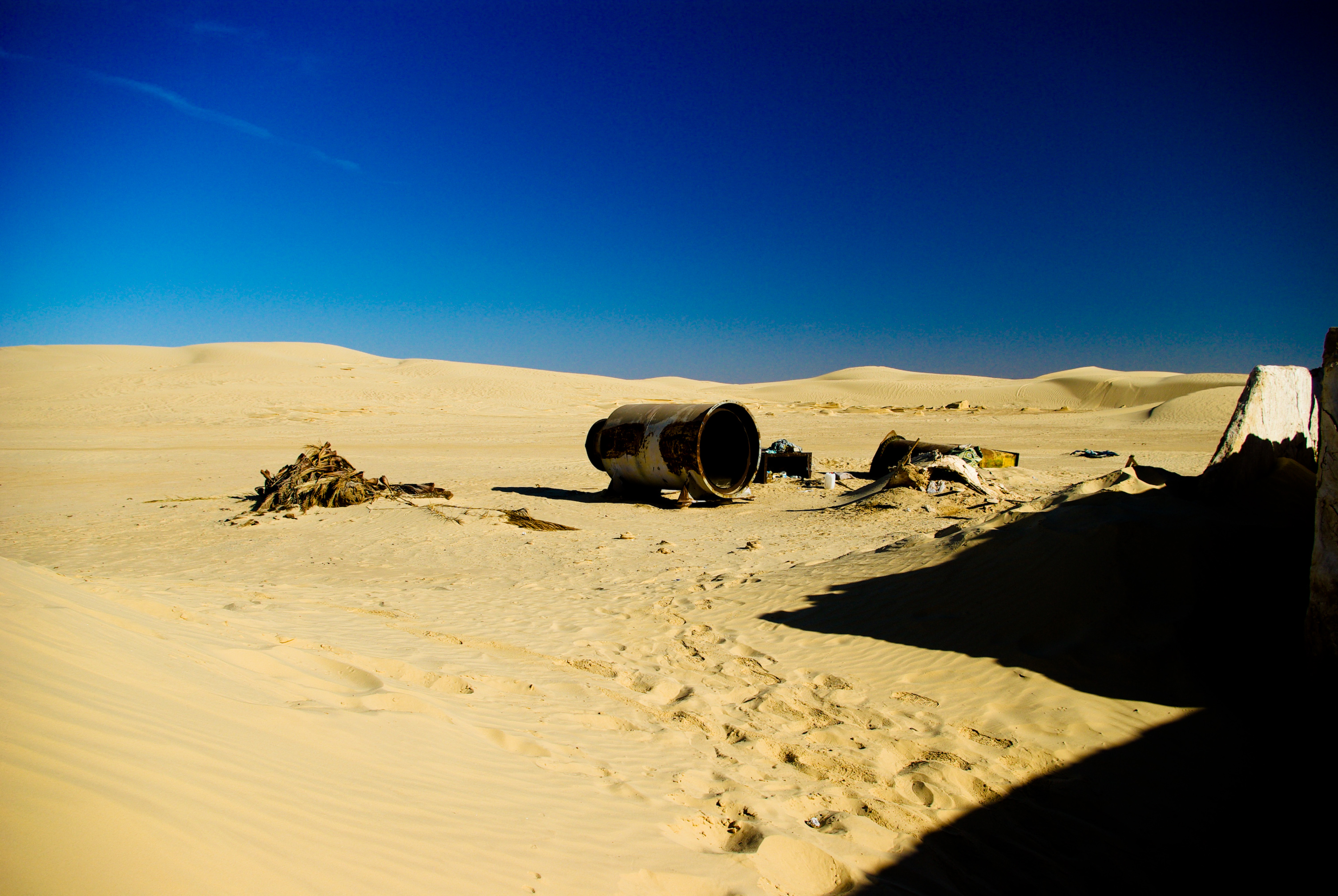 The original Star Wars set in the middle of the Tunisian desert. Never been a fan of Star Wars, but this place is rather interesting.